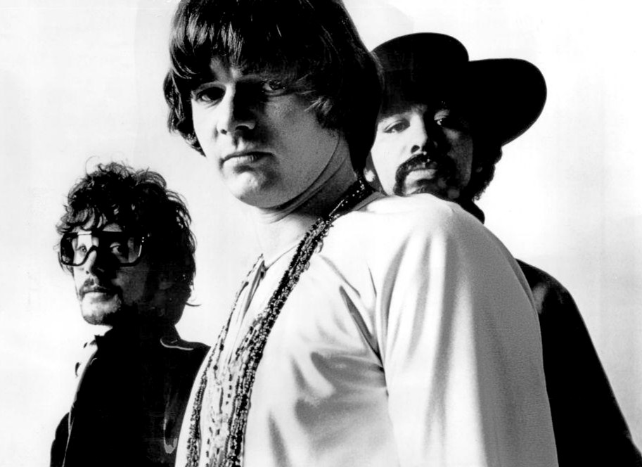 Publicity photo of the musical group, Steve Miller Band.